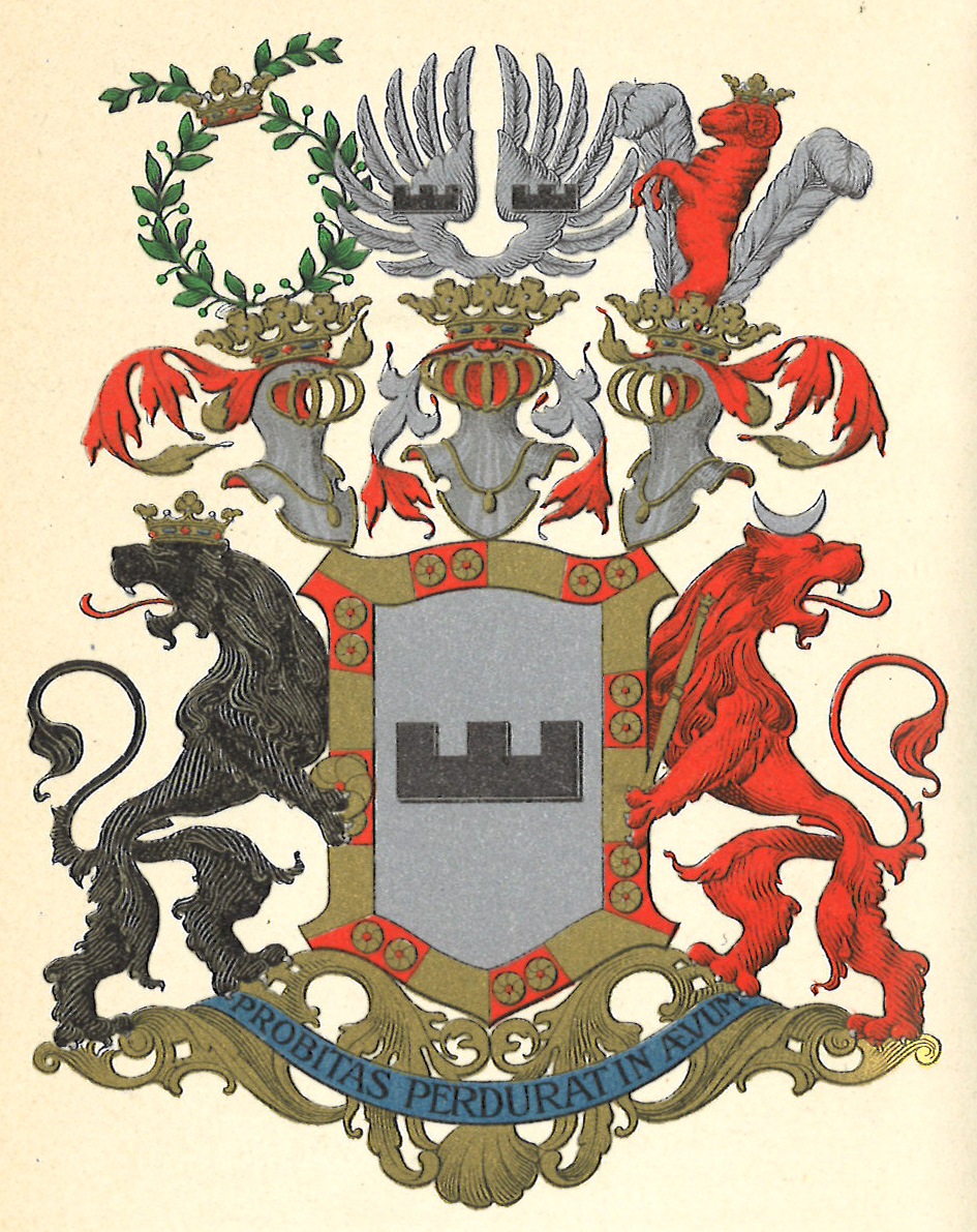 Coat of arms of the Swedish comital Wrangel family.